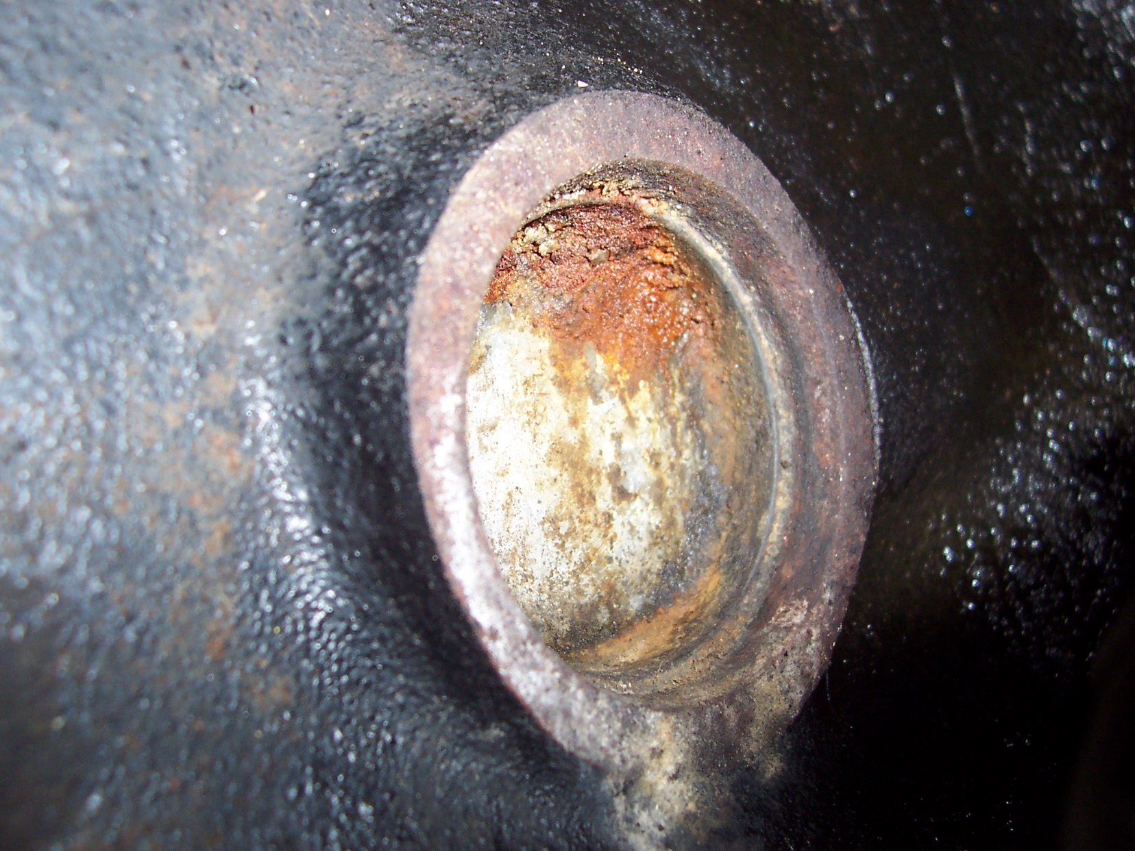 Core plug that has been corroded from improper engine coolant maintenance. Was leaking antifreeze at a fairly steady rate.